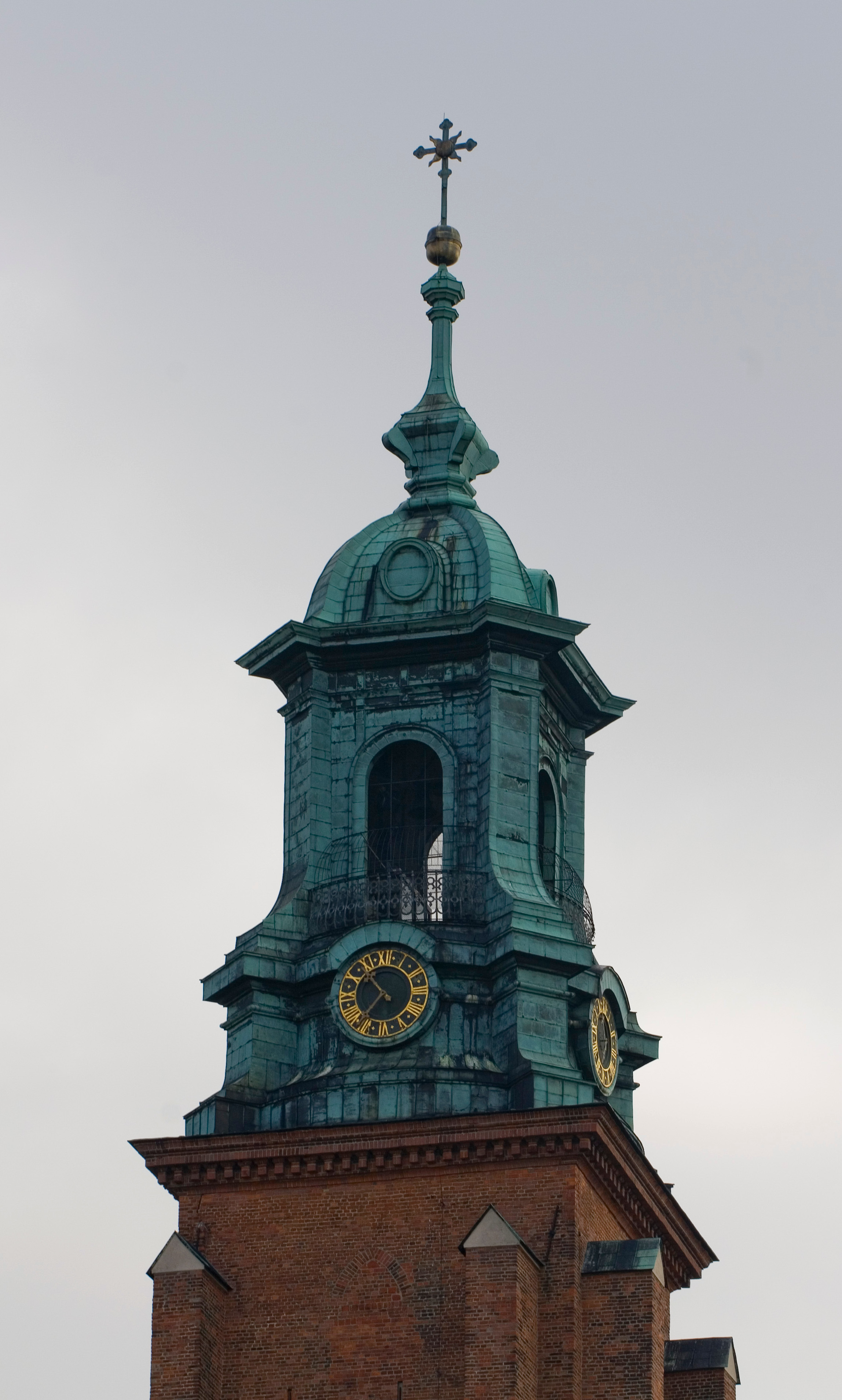 Gniezno Cathedral, Gniezno, Poland